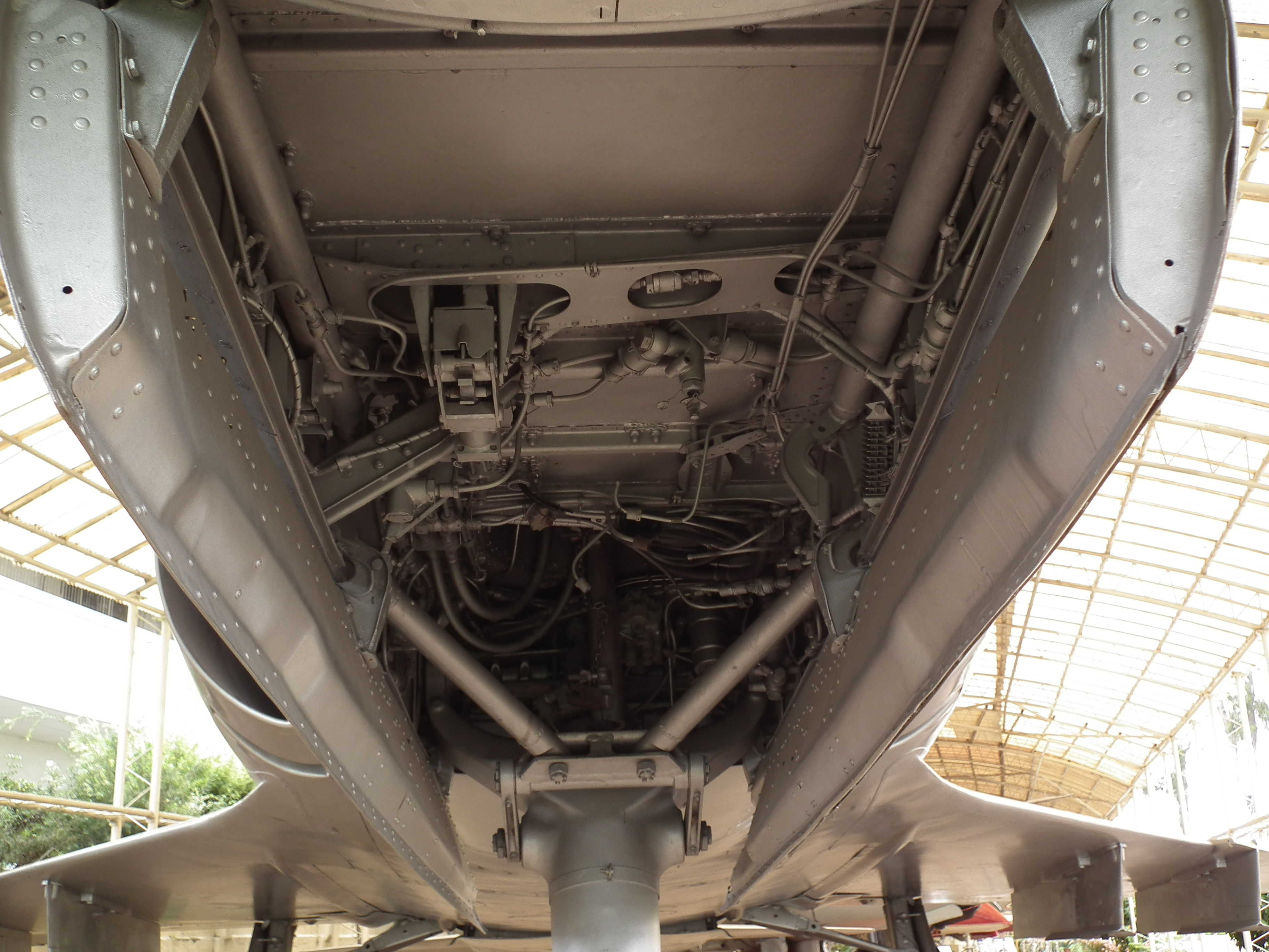 HAL HF-24 Marut trainer at HAL Museum